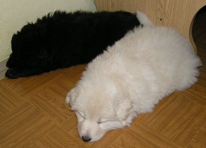 Puppies, 6 weeks Česky: Šěňata, 6 týdnů